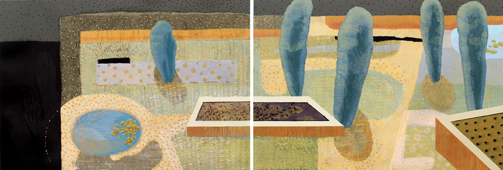 Ivo Křen, printmaker from the Czech Republic, diptych, At the rear end of the garden, multicoloured linocut 65 x 190 cm, 2011